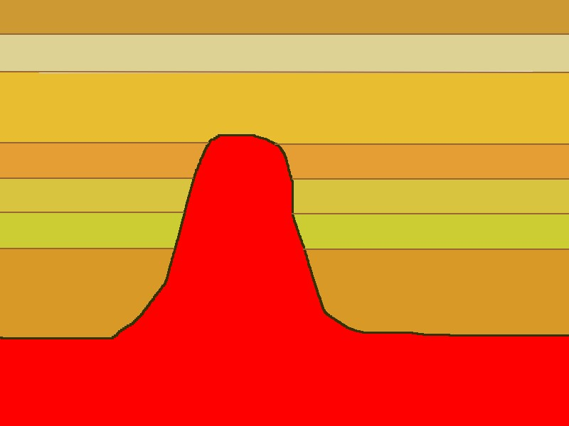 Stock Intrusion